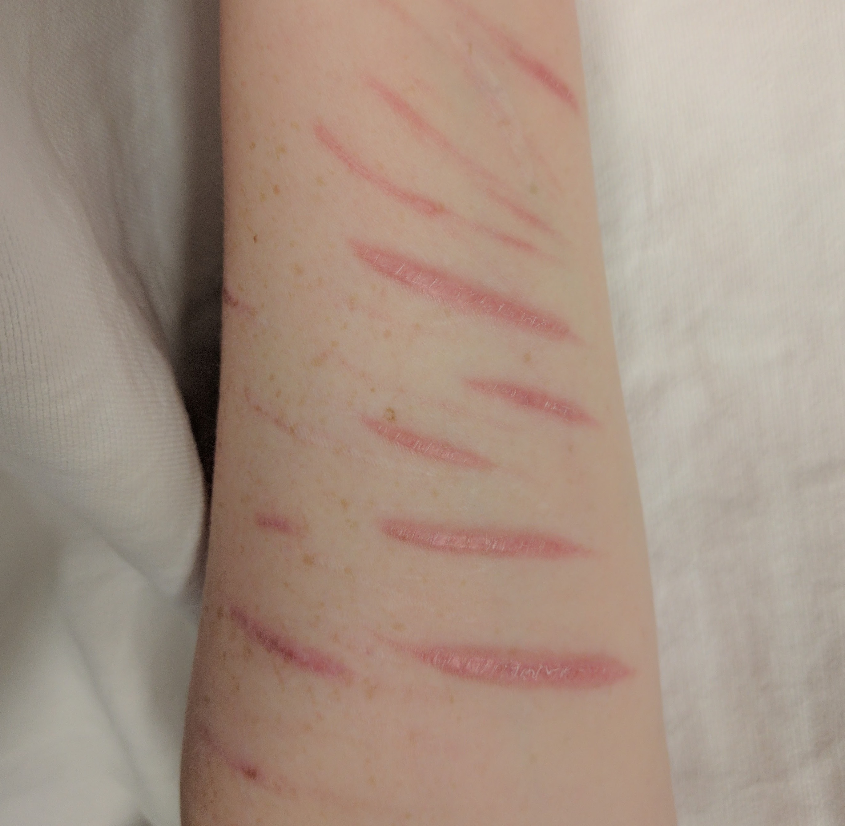 Healed scars from prior self harm.